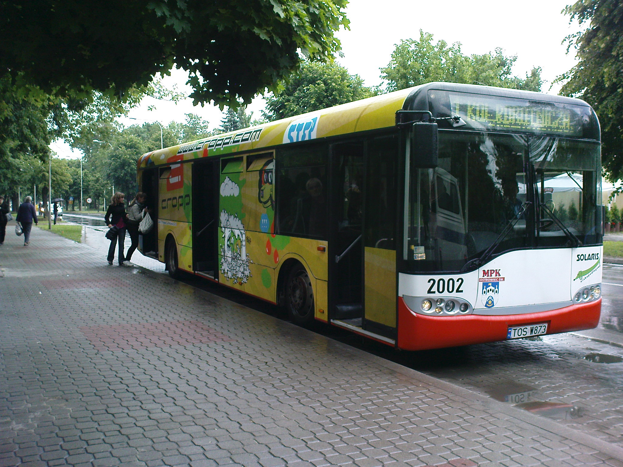 The image of Solaris Urbino 12 bus (#2002) in Ostrowiec Świętokrzyski, Poland. Built 2001, MPK Ostrowiec Świętokrzyski operator.